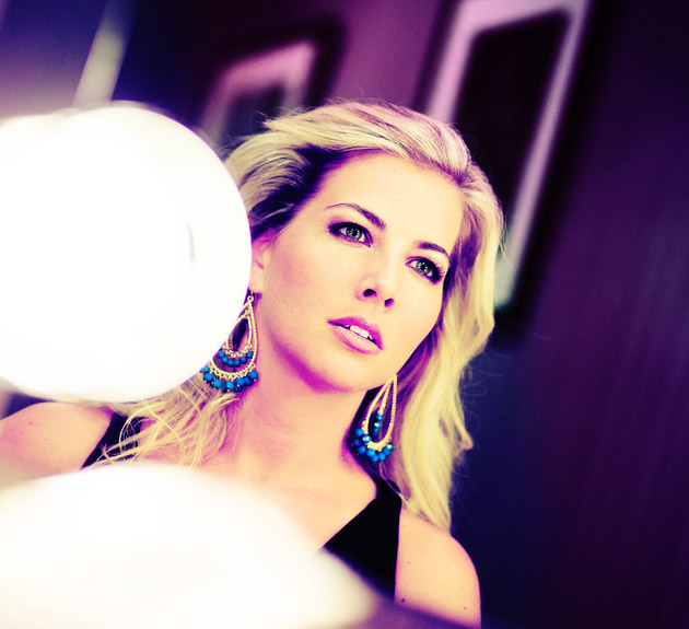 Image of singer and actress Morgan James as permissioned by Kevin Thomas Garcia